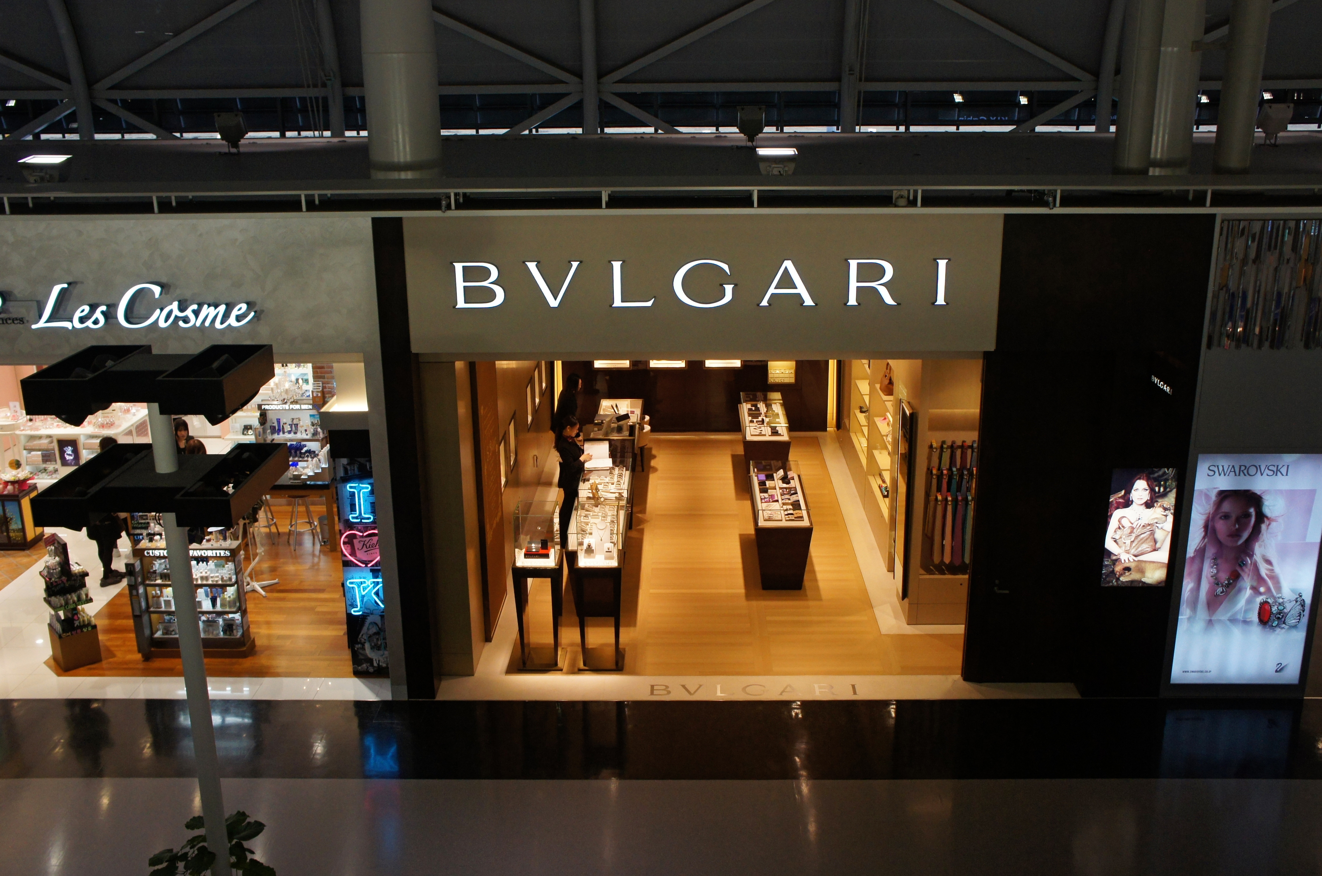 Kansai International Airport in Osaka prefecture, Japan